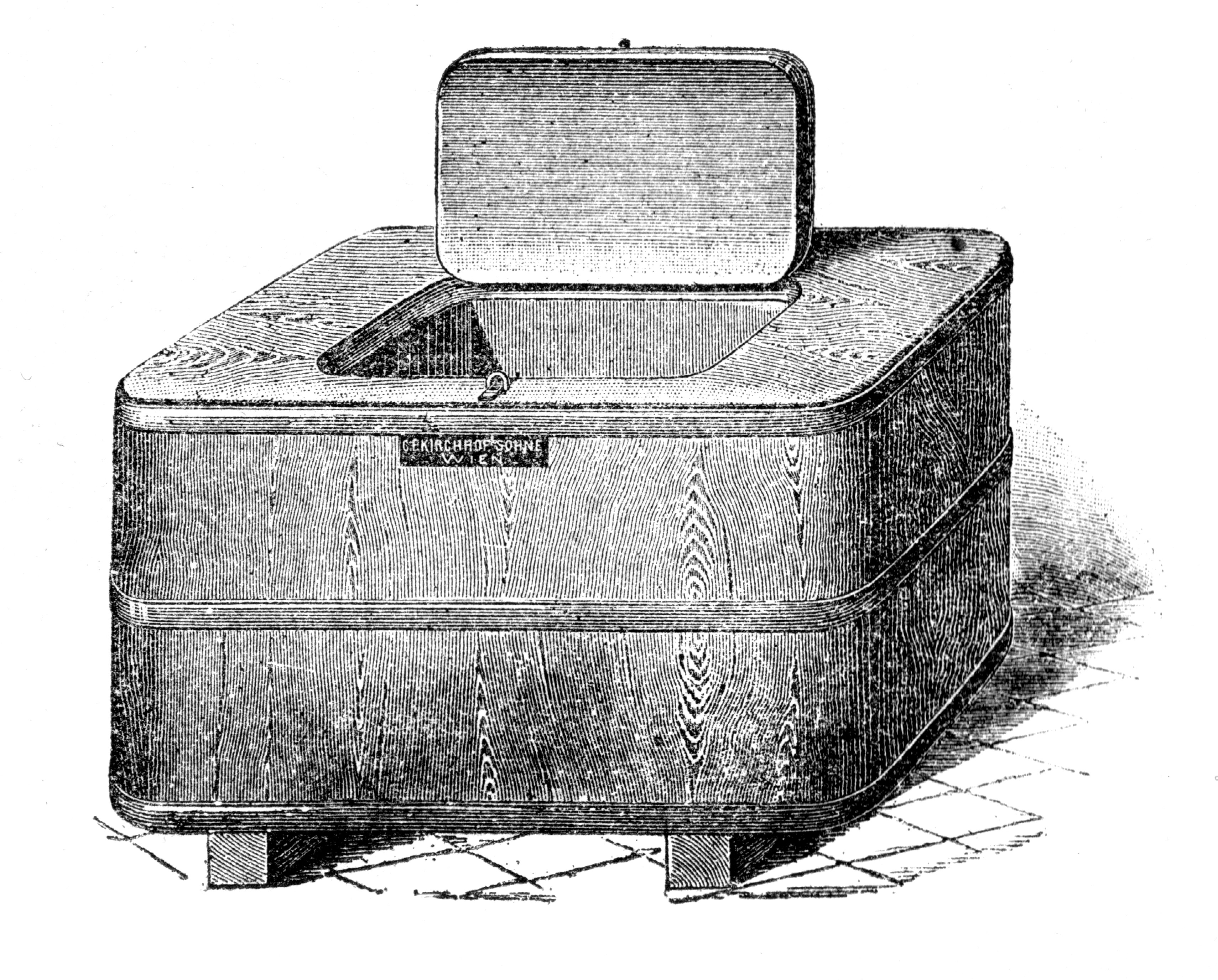 Drawing of the view of a device which conserves ice.